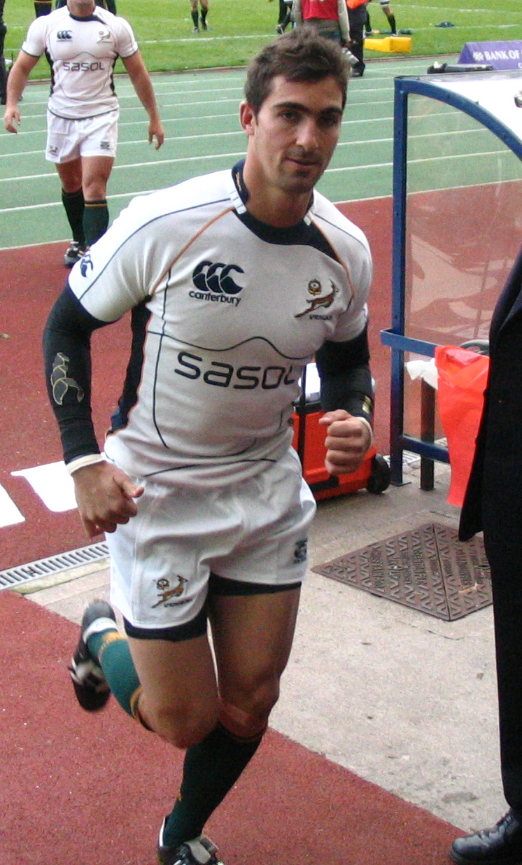 The South African rugby union player Ruaan Pienaar at Murrayfield during a test match against Scotland